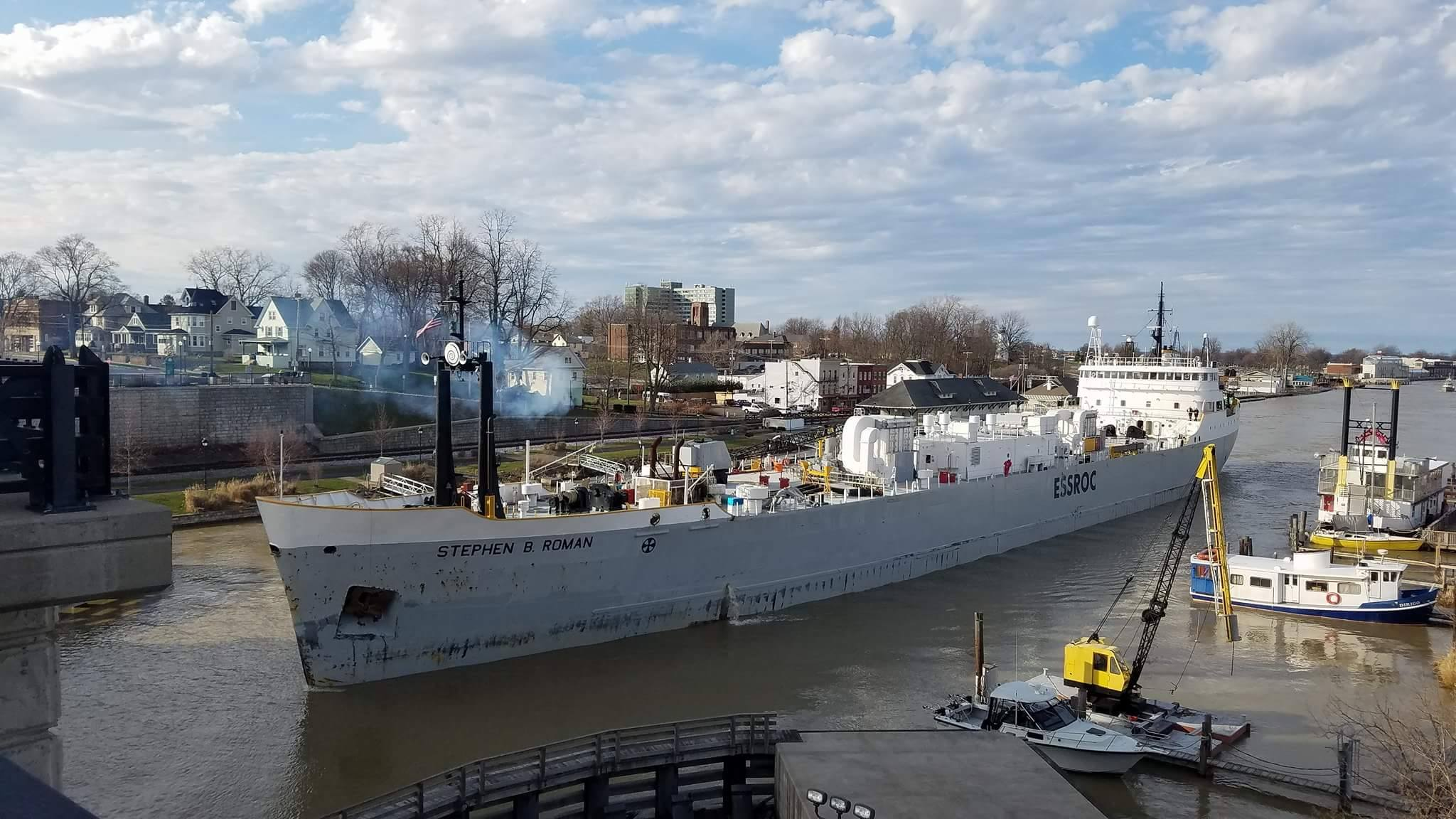 A photo of the Stephen B. Roman entering the Port of Rochester